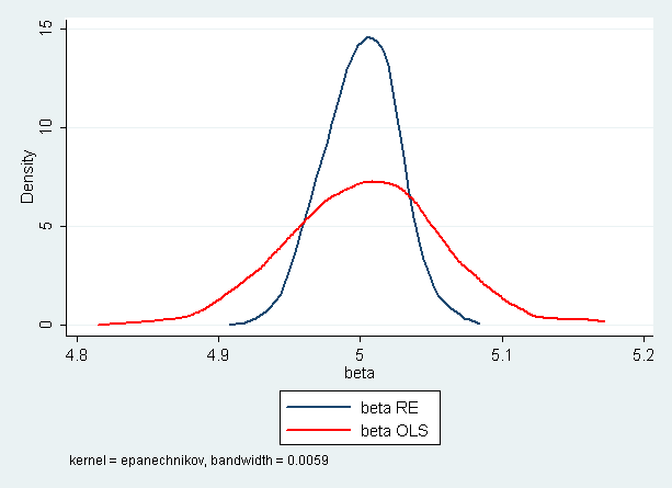 Comparison between the Ordinary Least Squares (OLS) and the Random Effects (RE) estimator in a situation where the assumptions of the Random Effects model hold. Using Stata, I created an artificial panel data set of 2 time periods and 1000 observations that satisfies the RE assumptions, simulated 1000 OLS and Random Effects estimations and plotted an estimate of the density functions of the two estimators. As can be seen, both distributions are centered around the true underlying parameter value 5, but the distribution of the RE estimator varies less. The graph and all simulations were created with Stata 10.